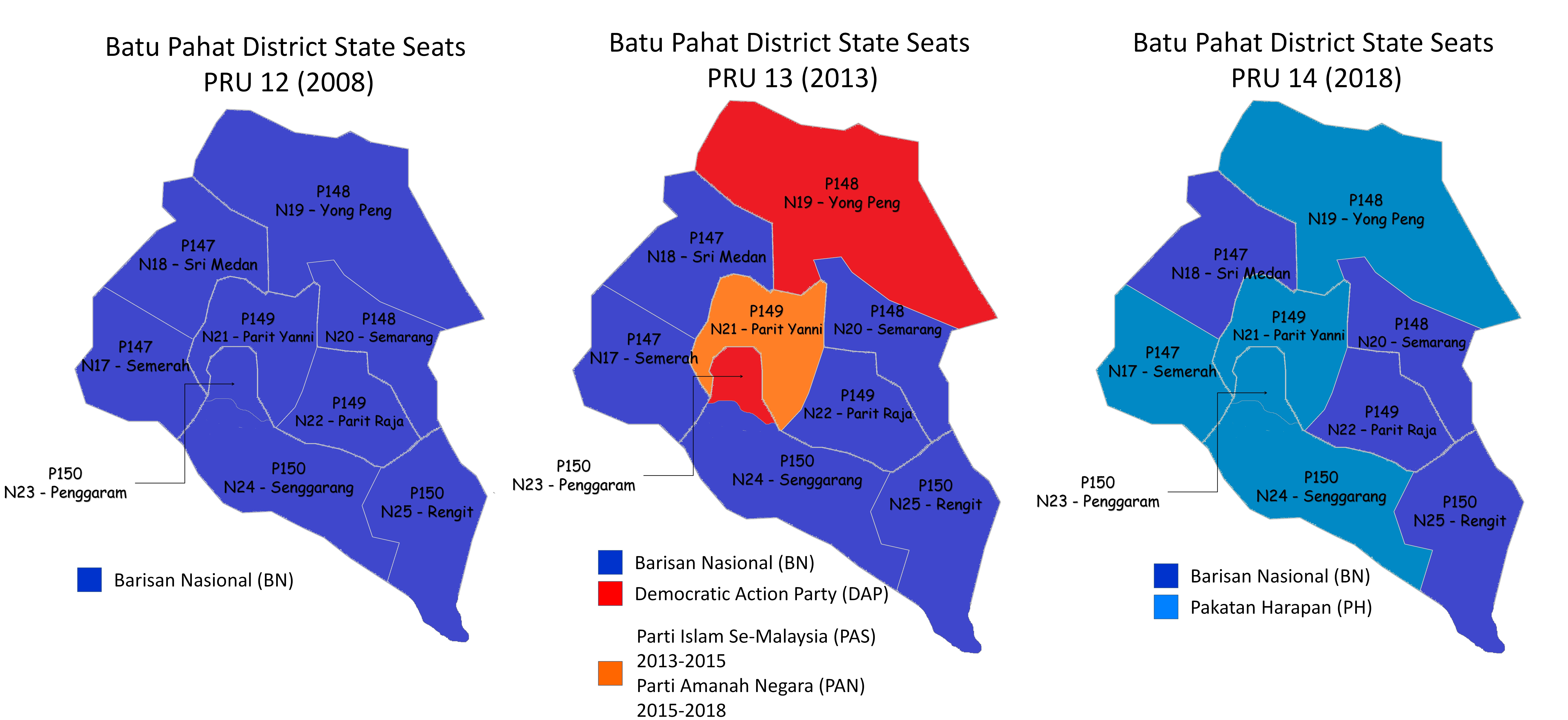 Batu Pahat state seats results